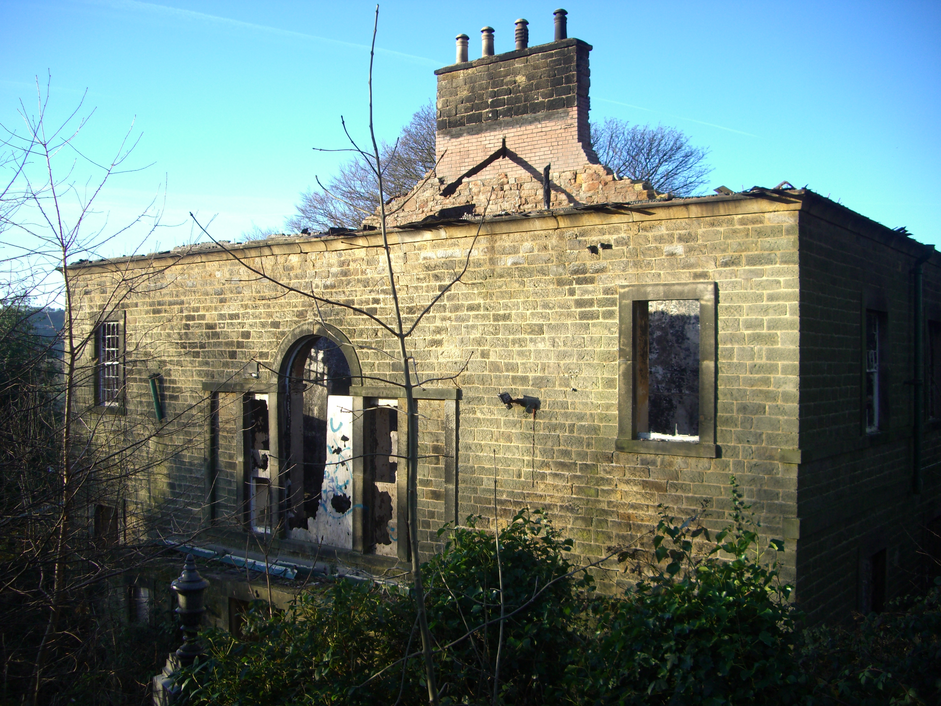 The east side of the Loxley United Reformed Church in Loxley, Sheffield in early 017 showing fire damage.